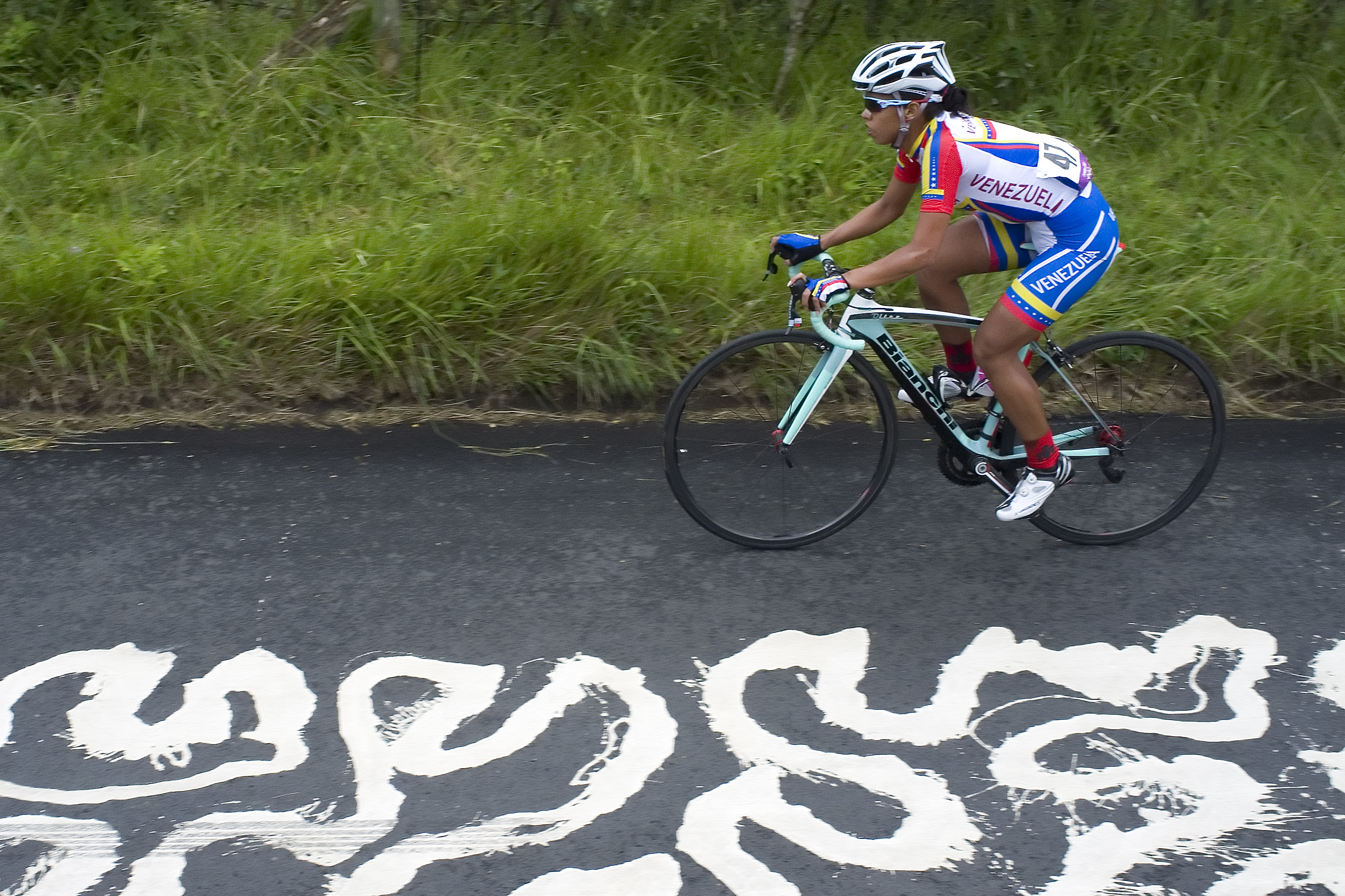 Venezuelan Danielys Garcia in the cycling road race as part of the 2012 London Olympics